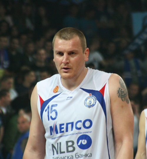 Gjorgji Cekovski in MZT Skopje jersey.